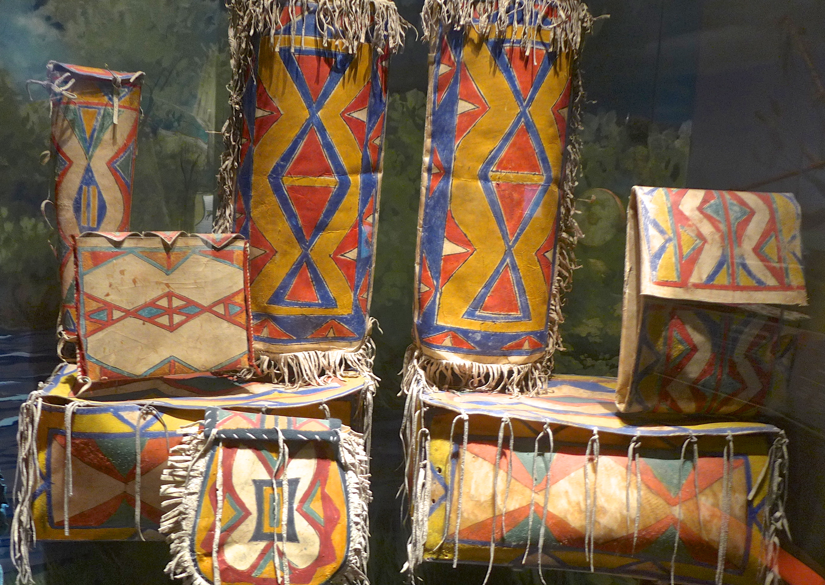 Parfleche is a type of container made from buffalo raw hide that Plains people fashioned into containers and decorated with brightly colored geometrical designs.